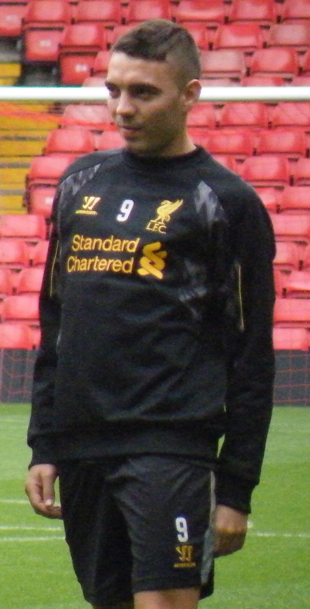 Brendan Rodgers and Iago Aspas during open training session at Anfield in August 2013.